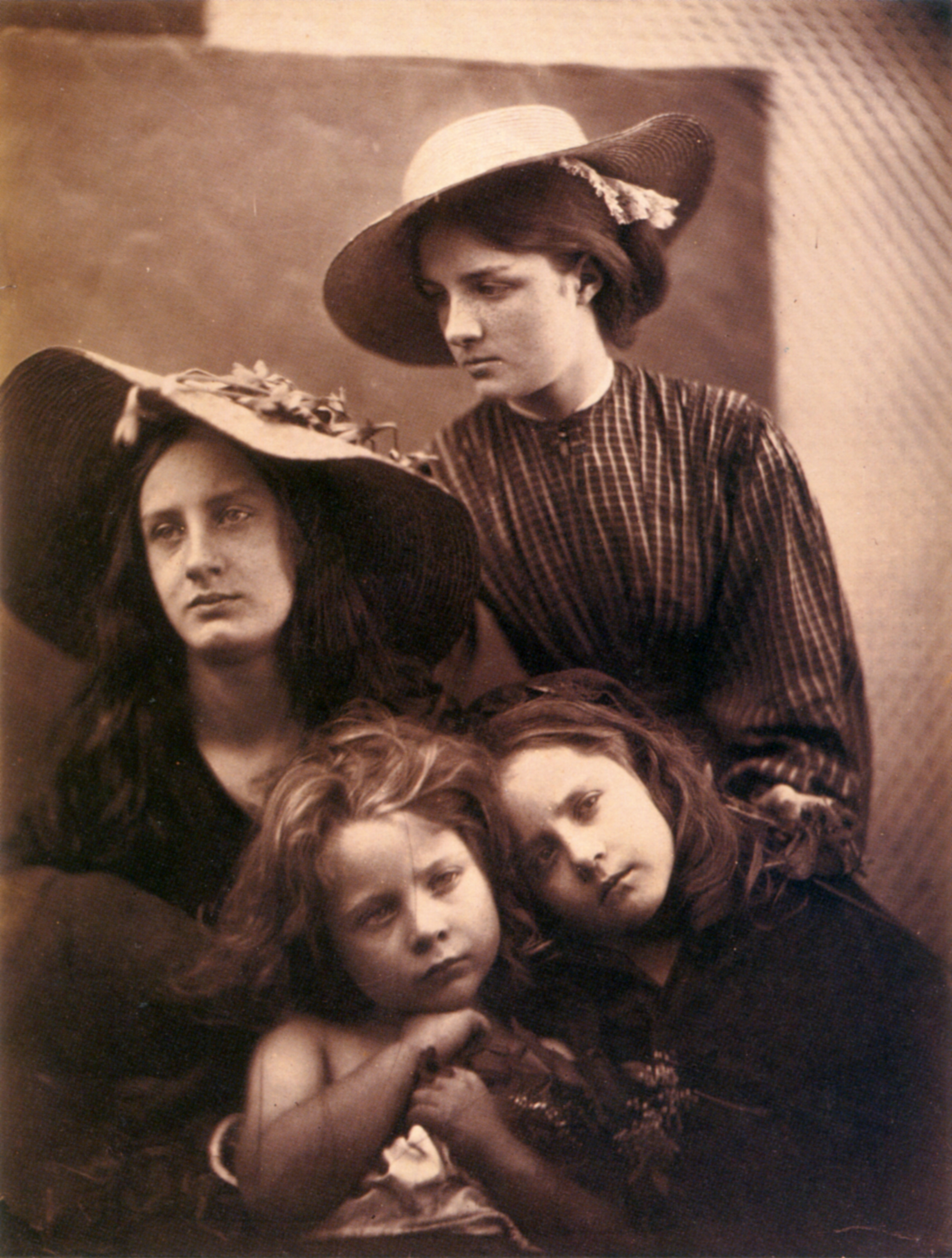 Summer Days. May Prinsep, Mary Ryan, Freddy Gould and Elizabeth Keown. Albumen print, 353 x 265mm (13 7/8 x 10 3/8").